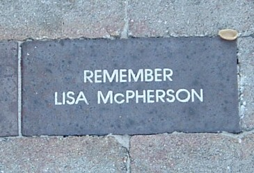 Commemorative brick (restored after being defaced), memorial of Lisa McPherson